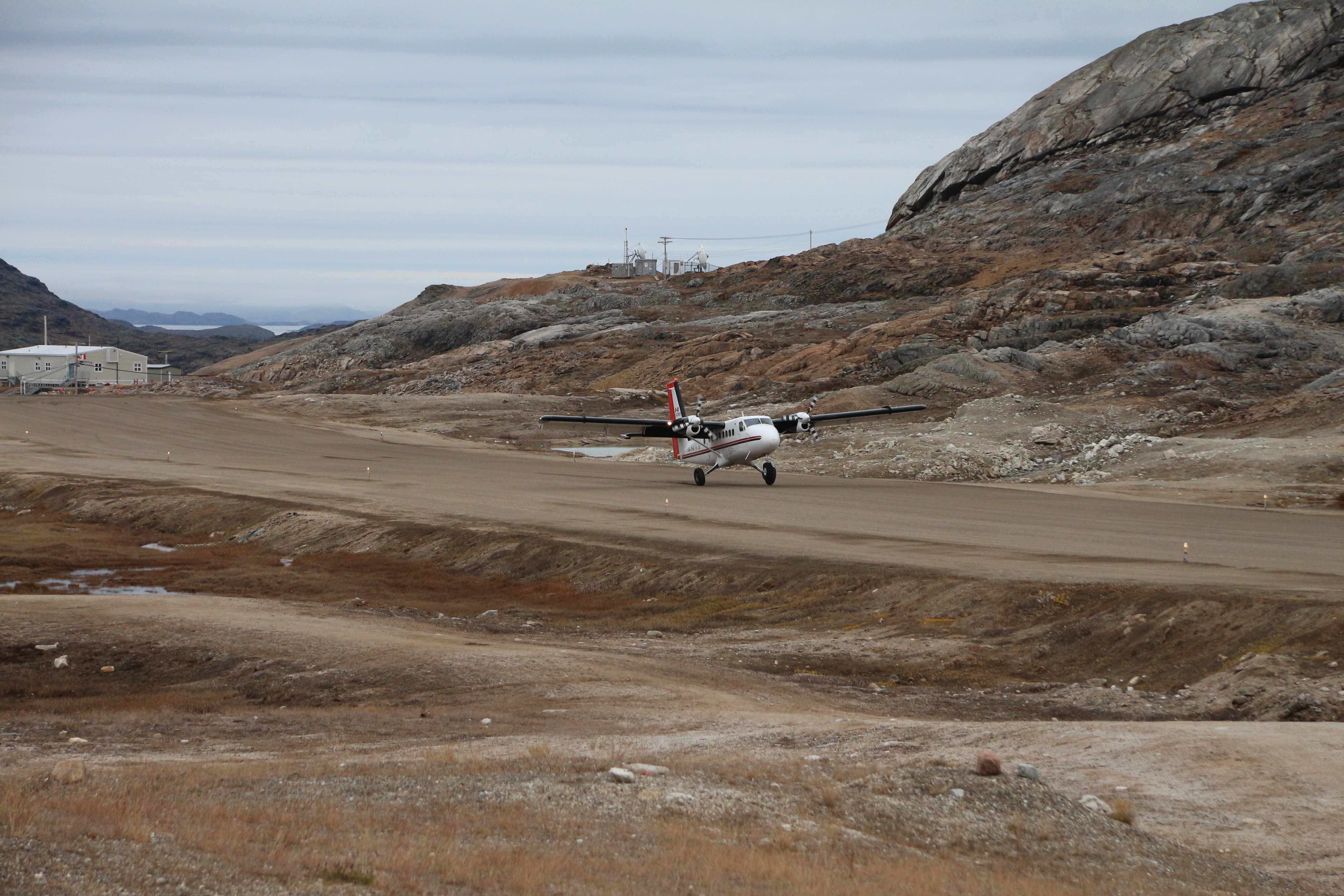 A perspective of the terrain and just how short the runway is.